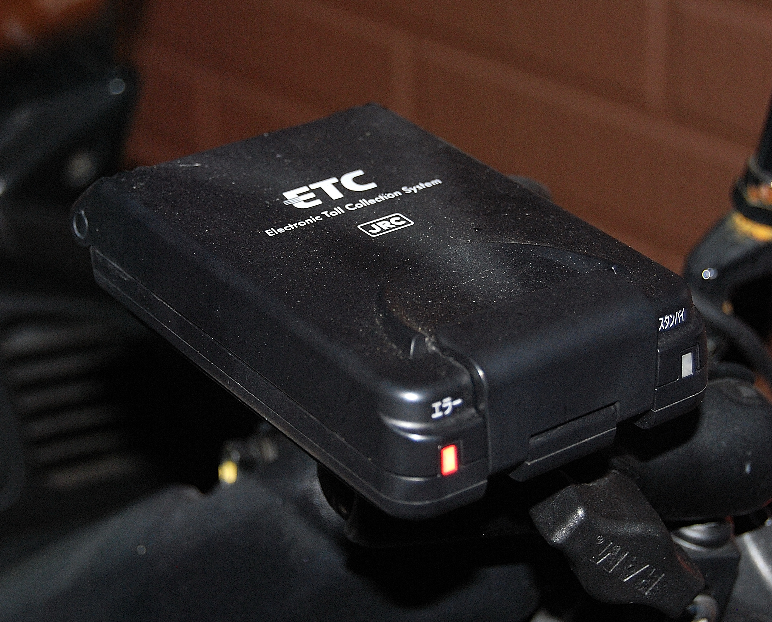 ETC (Electronic Toll Collection) unit for motorcycles